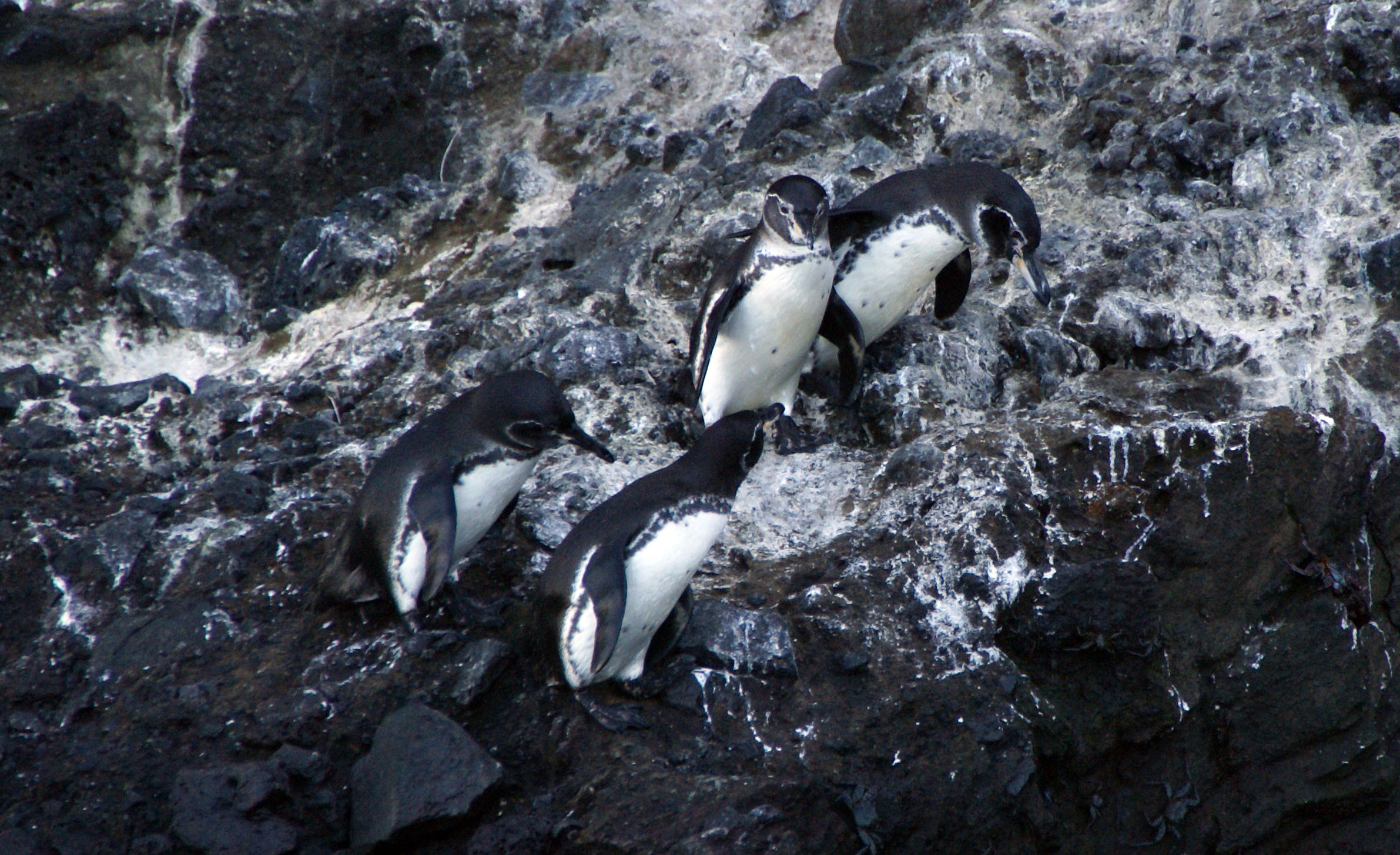 Galápagos Penguin (Spheniscus mendiculus). Four on dark rock at Targus Cove on Isabela Island, Galapagos.